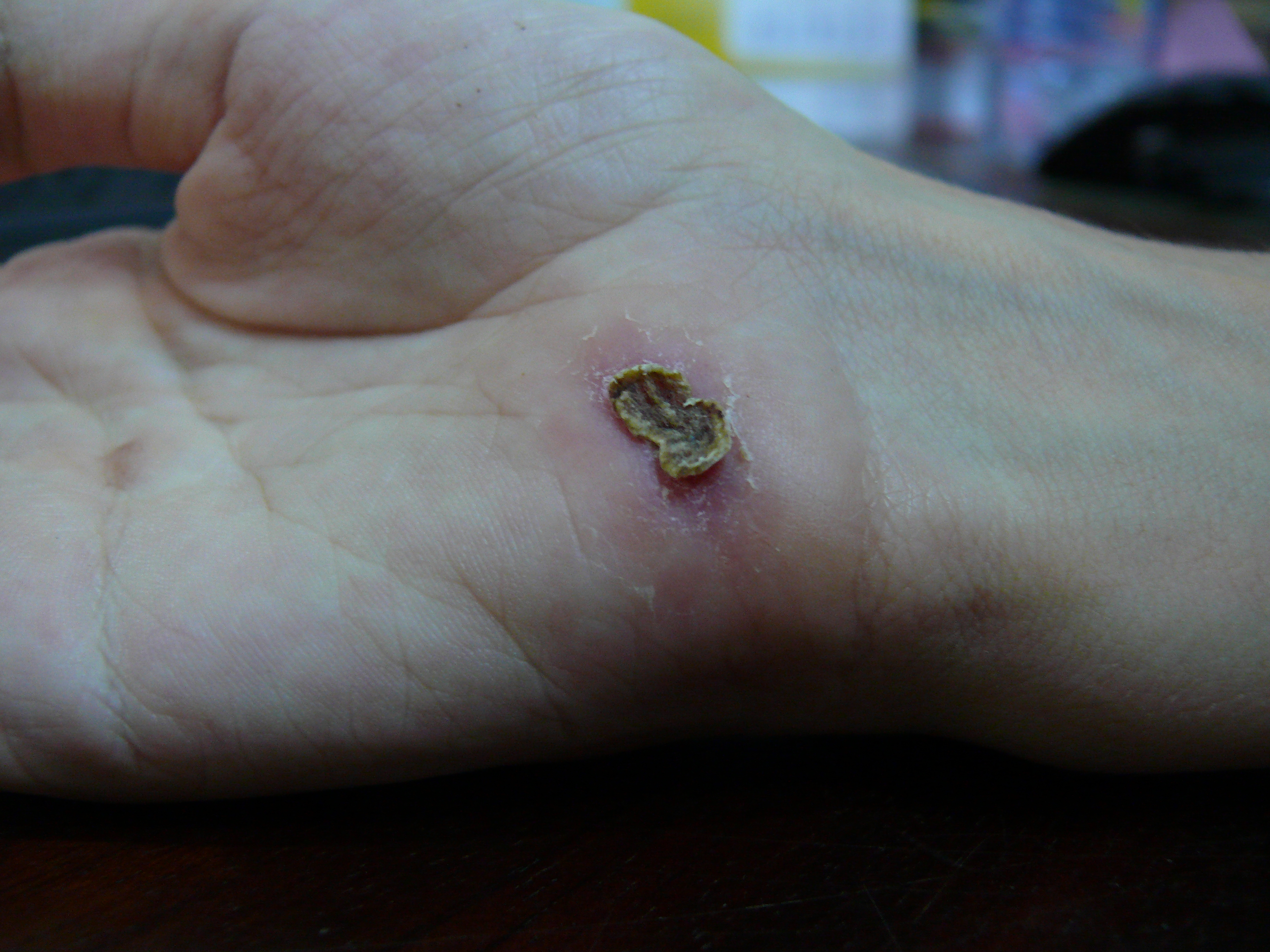 Wound on palm of hand 17 days after falling off a bike onto concrete. Previous photos: Day 1: Image:Wound on palm of hand.jpg Day 2: Image:Wound on palm of hand - day 2.jpg Day 3: Image:Wound on palm of hand - day 3.jpg Day 4: Image:Wound on palm of hand - day 4.jpg Day 5: Image:Wound on palm of hand - day 5.jpg Day 6: Image:Wound on palm of hand - day 6.jpg Day 7: Image:Wound on palm of hand - day 7.jpg Day 8: Image:Wound on palm of hand - day 8.jpg Day 9: Image:Wound on palm of hand - day 9.jpg Day 10: Image:Wound on palm of hand - day 10.jpg Day 11: Image:Wound on palm of hand - day 11.jpg Day 12: Image:Wound on palm of hand - day 12.jpg Day 13: Image:Wound on palm of hand - day 13.jpg Day 14: Image:Wound on palm of hand - day 14.jpg Day 15: Image:Wound on palm of hand - day 15.jpg Day 16: Image:Wound on palm of hand - day 16.jpg Following photos: Day 18: Image:Wound on palm of hand - day 18.jpg Day 19: Image:Wound on palm of hand - day 19.jpg Day 20: Image:Wound on palm of hand - day 20.jpg